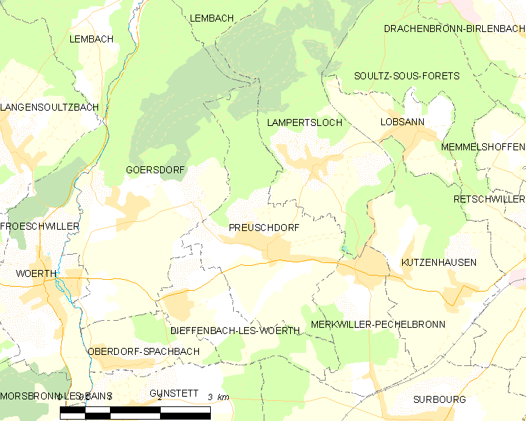 Map of French municipality